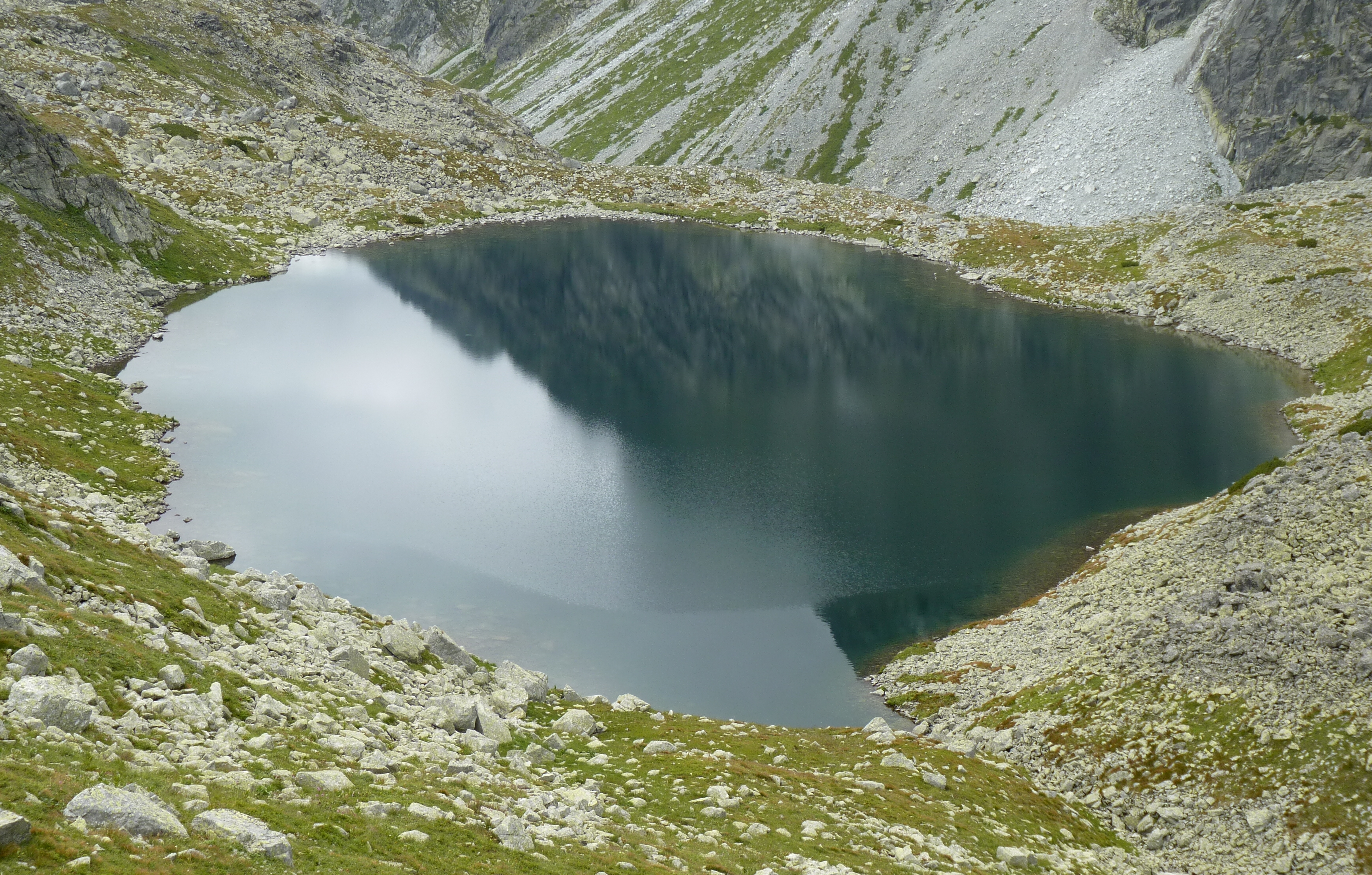 Malé Hincovo pleso. Mengusovská Valley, Tatra Mountains, Slovakia